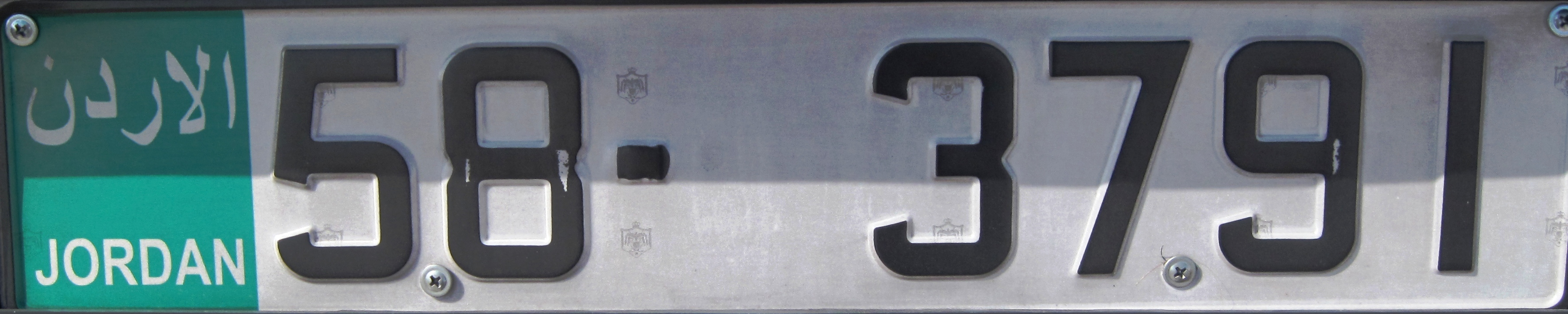 License plate of Jordan. The green section indicates a vehicle registered as taxi, rental car or bus.